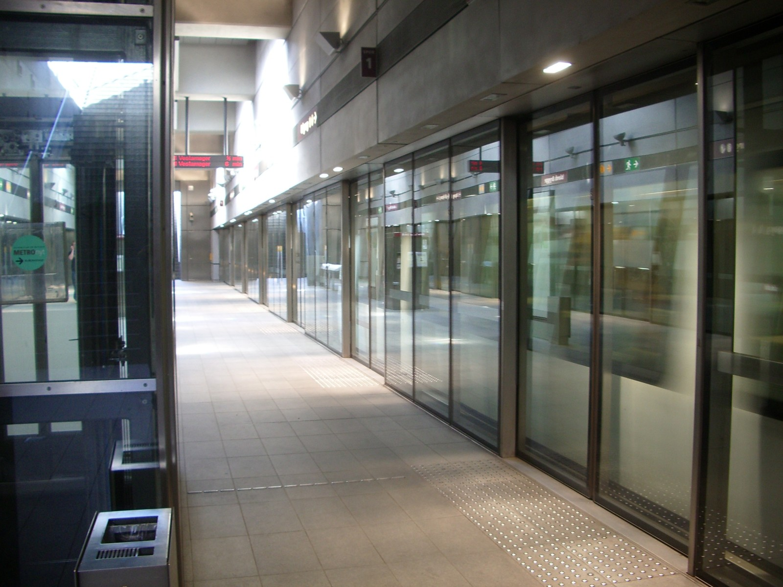 Metro train arriving at Islands Brygge station